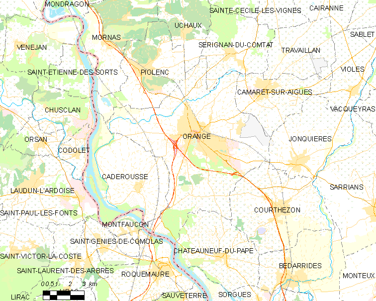 Map of French municipality Orange